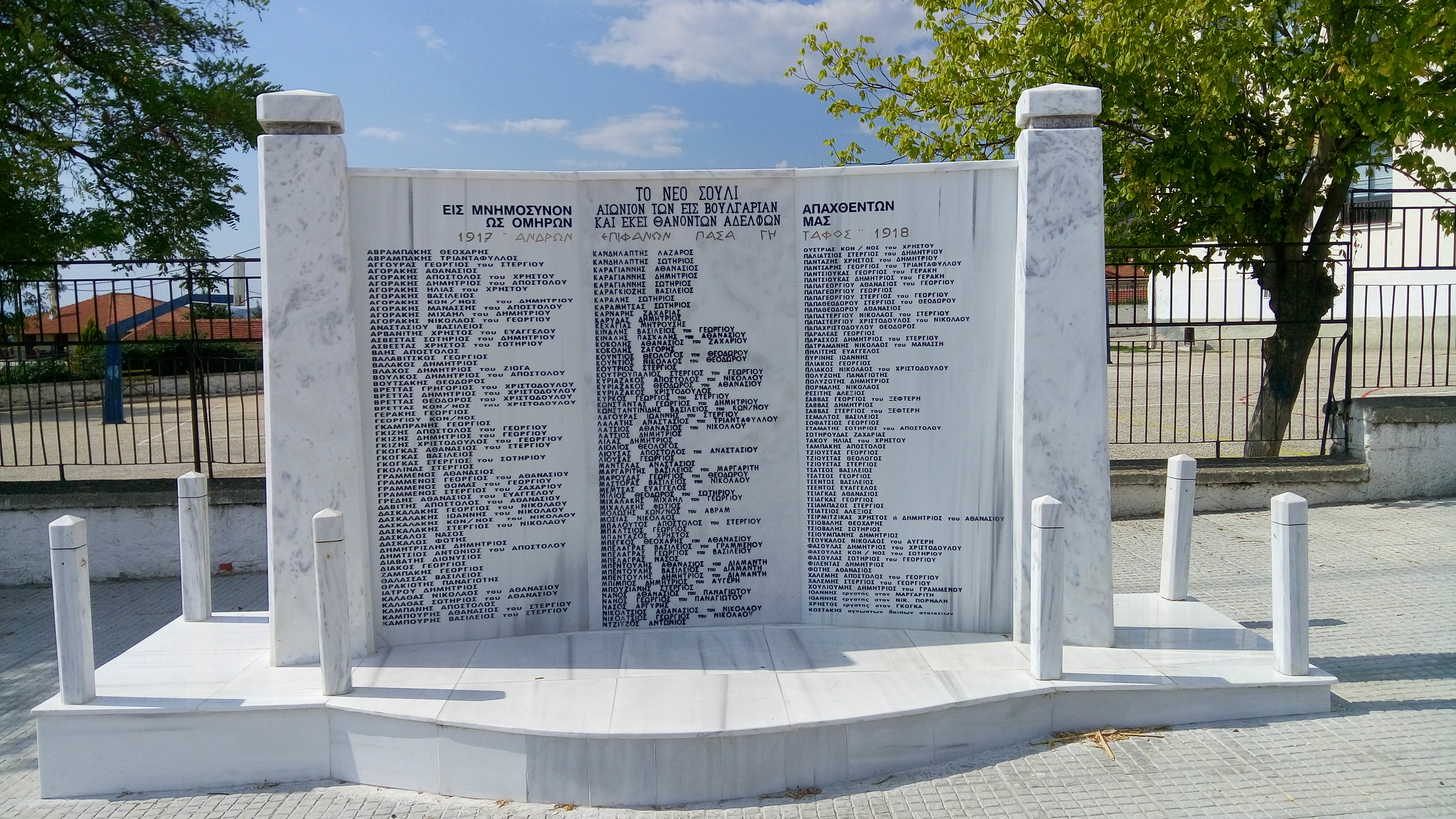 The monument commemorating the Macedonians from Neo Souli that gave their life at the Macedonian War of Greeks against Bulgarians